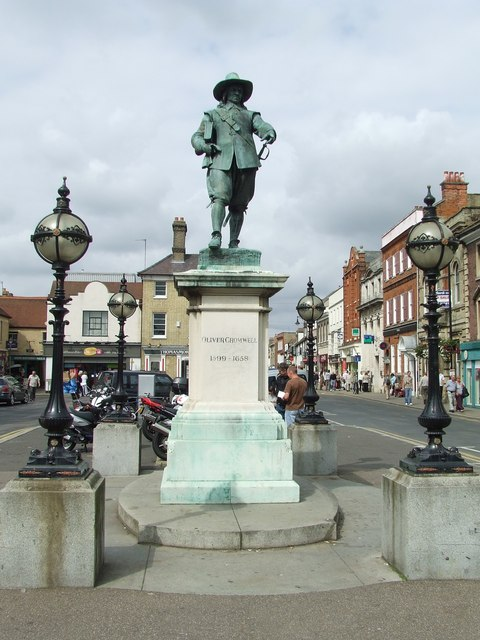 This statue of Oliver Cromwell stands in the open space between The Pavement and Market Hill in St Ives, Cambridgeshire, England. Erected in 1901.